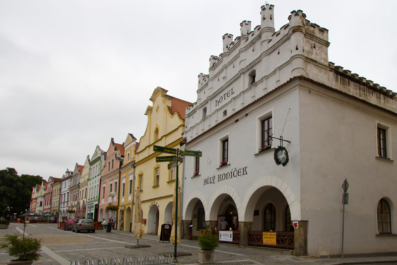 Bílý koníček hotel, Třeboň, Czech Republic